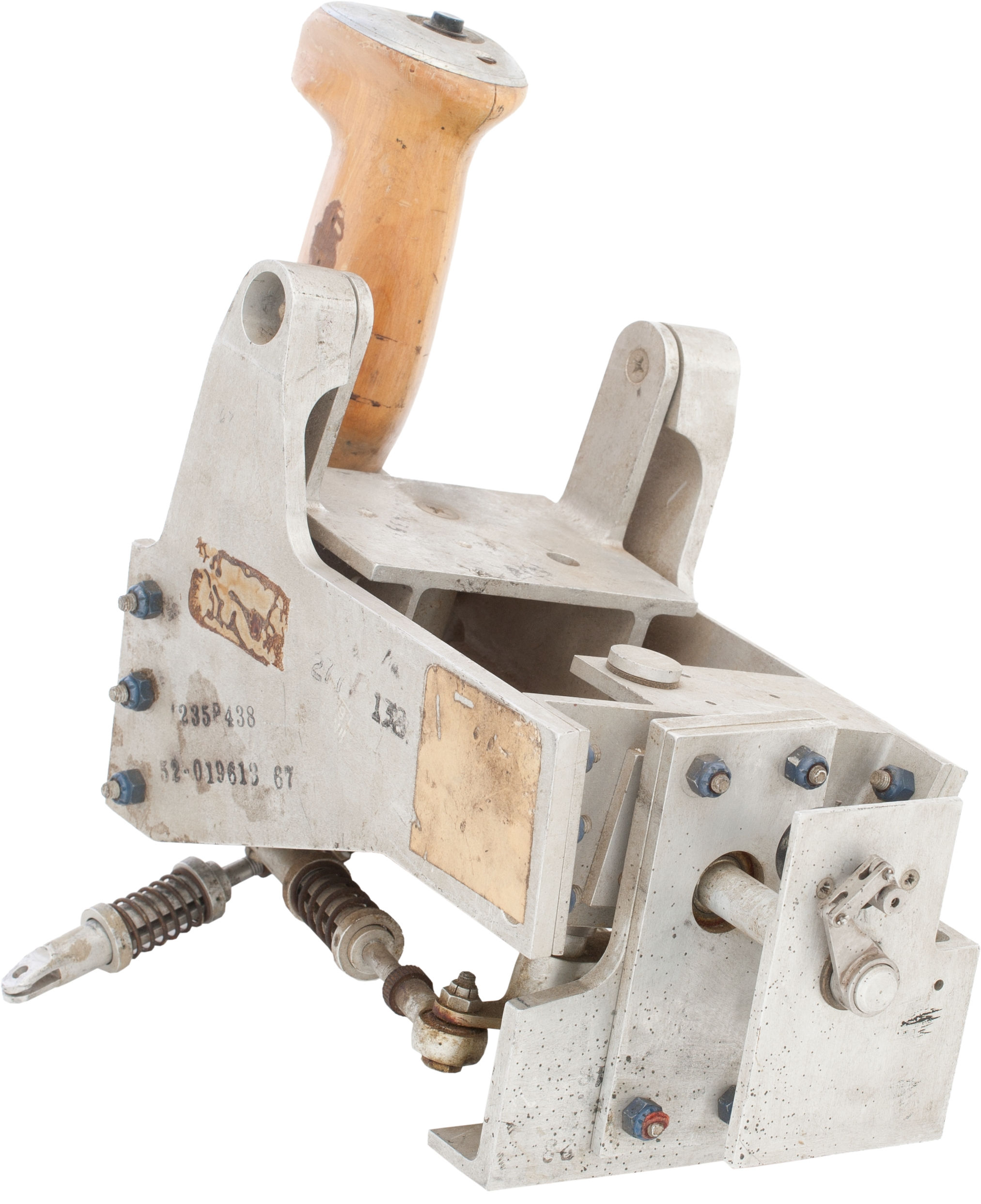 A three-axis prototype controller, giving pitch, yaw and roll control to the capsule pilot, circa 1962. It has a striking resemblance to the Mercury controller, with a set of linkages that would control variable valves on the SE-6 thrusters. As the design progressed through Gemini to Apollo, the physical linkages gave way to a fly-by-wire system, much like the modernization of automobiles. The artifact has been in the family of an Apollo test engineer for many years, a prized memento with its hand-carved wooden grip.